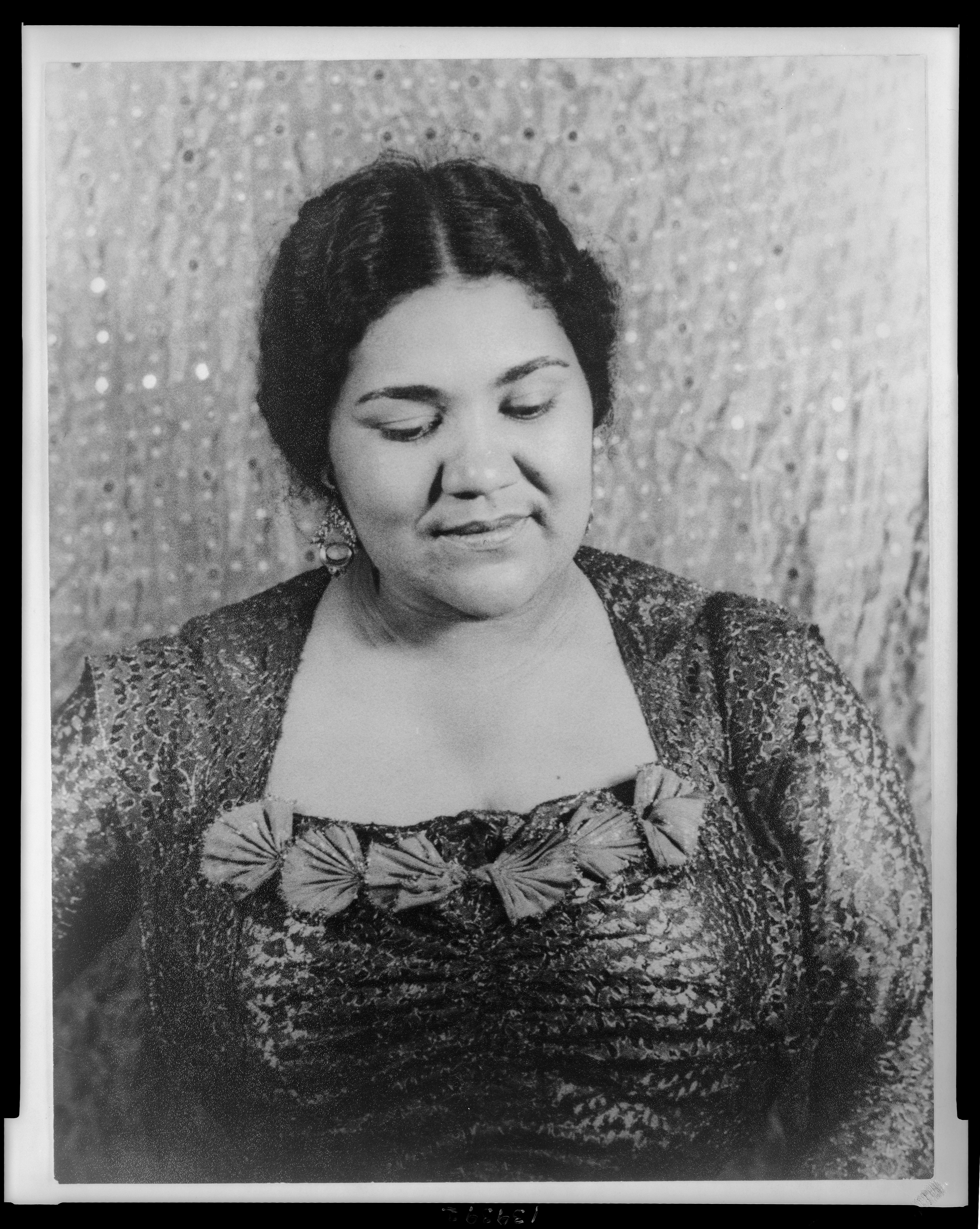 Title: Portrait of Dorothy Maynor Abstract/medium: 1 photographic print : gelatin silver.